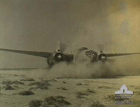 AWM caption : Western Desert, Libya. 4 June 1942. A South African Air Force Douglas A-20 Boston bomber aircraft takes off from a desert landing ground on yet another raid amid a swirl of fine sand. Comment : if this is the SAAF in Libya, the aircraft belongs to No. 12 Squadron SAAF or No. 24 Squadron SAAF.